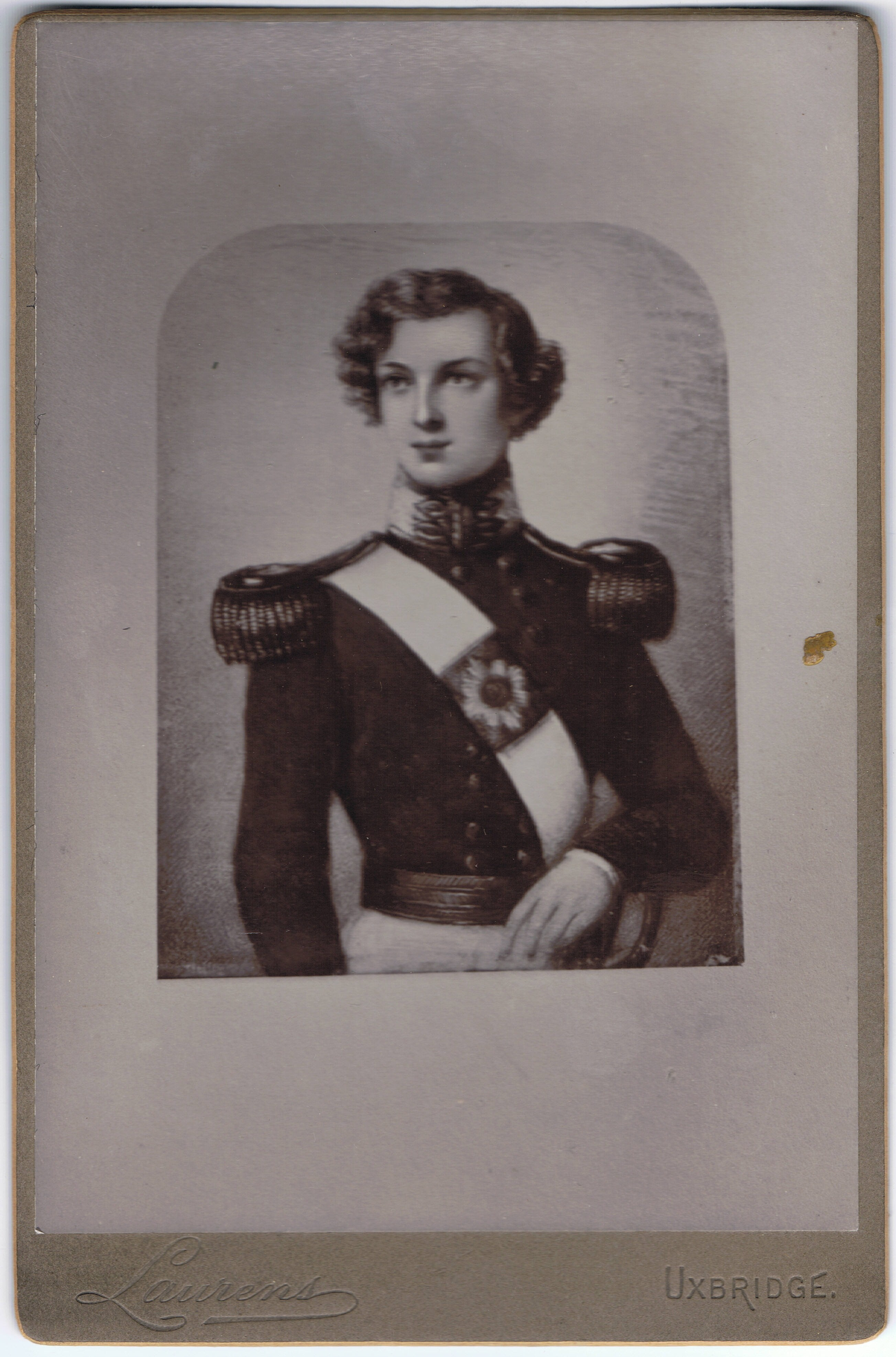 by mistake by me once thought to be Peter John Fane de Salis, but it is his younger half-brother Charles L. M. F. De Salis. Charly Charles Louis Maximilian, Captain the Hon. C. Louis Fane De Salis (born Dublin 4.1.1821- killed Pimlico, 25.6 or 7.1845); Educated at Eton; an ensign and lieutenant and captain in the Scots Fusilier Guards from April 21 1837, and Page of Honour (Queen's Stables) to Queen Adelaide. Died following a riding accident on Constitution Hill. Note: check newspaper reports of his accident and death. Scan of cabinet photo, second half C19th, of an earlier, c1840, painting. Scan by me, Rodolph de Salis, October 2007. Rodolph 10:29, 19 October 2007 (UTC)